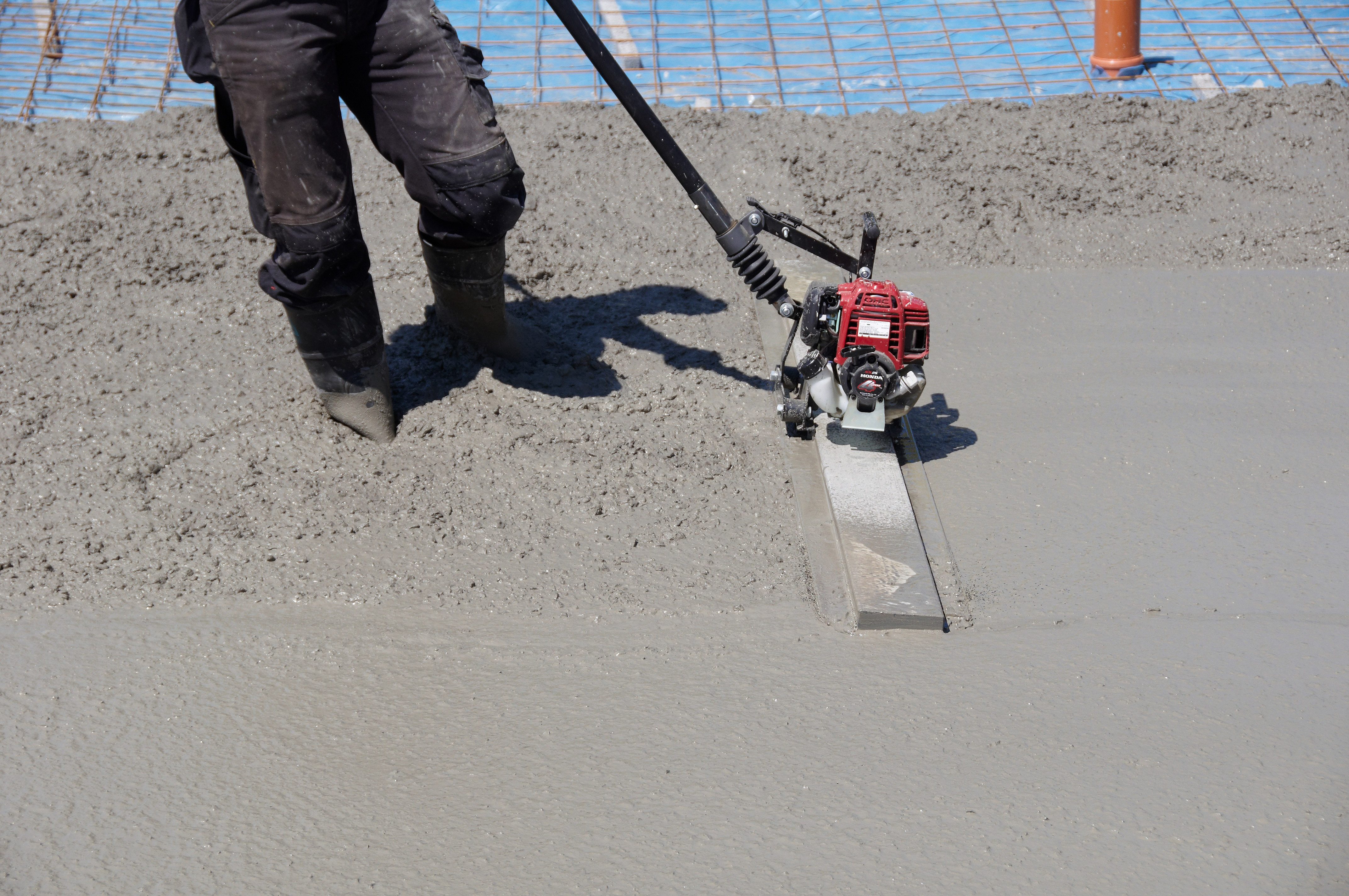 Flattening of just poured concrete by vibration